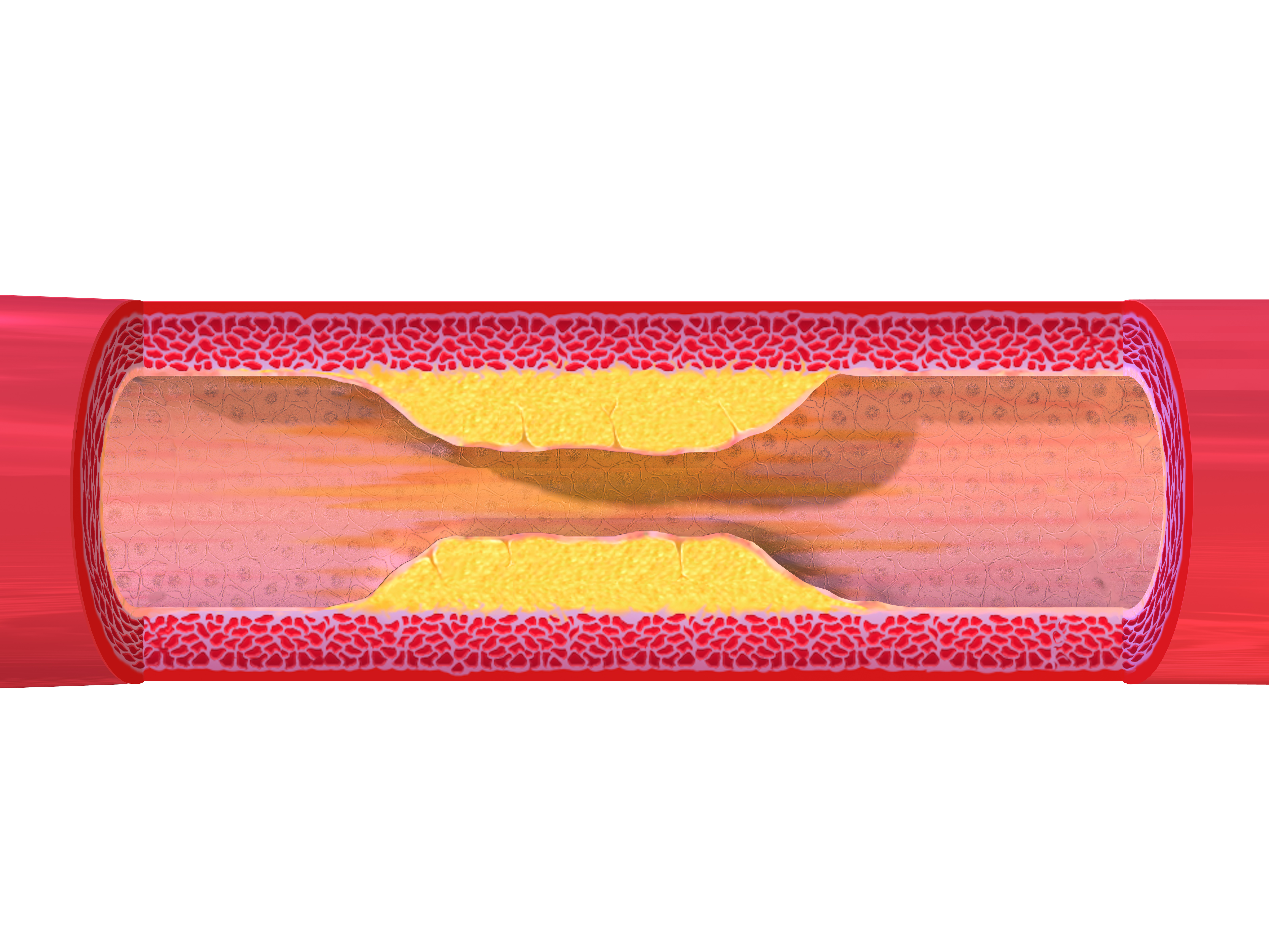 Artery Plaque. Animation in the reference.[1]